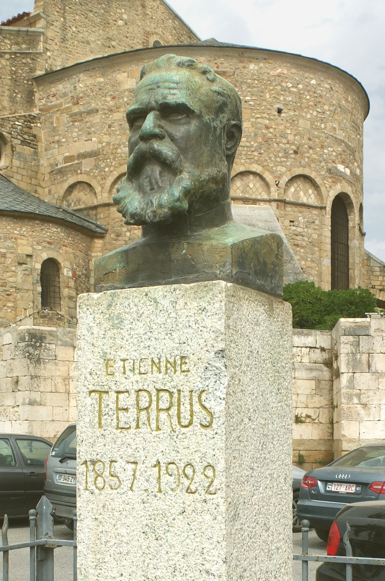 Bust of Étienne Terrus (1857–1922) Alternative names Etienne TerrusDescriptionFrench painterDate of birth/death 21 September 1857 22 June 1922 Location of birth/death Elne ElneAuthority control : Q290115 VIAF: 47608844 ISNI: 0000 0000 4927 1136 ULAN: 500347413 LCCN: nr2002042811 GND: 121079961 WorldCat creator QS:P170,Q290115 created by: Aristide Maillol (1861–1944) Alternative names Aristide Joseph Bonaventure MaillolDescriptionFrench sculptor, painter, draughtsman and printmakerDate of birth/death 8 December 1861 27 September 1944 Location of birth/death Banyuls-sur-Mer Banyuls-sur-MerWork location Paris (1881-1900), Banyuls-sur-Mer (1893-1944)Authority control : Q153920 VIAF: 14228 ISNI: 0000 0001 0854 4692 ULAN: 500001596 LCCN: n80015568 NLA: 35202089 WorldCat creator QS:P170,Q153920 location: Elne, France.